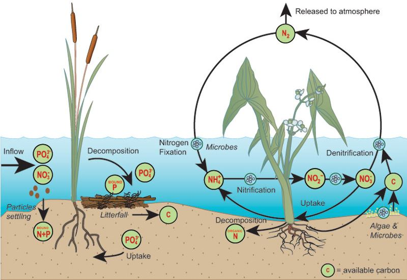 (modified from Kadlec and Knight (1996), “Treatment Wetlands”; images from IAN, University of Maryland).